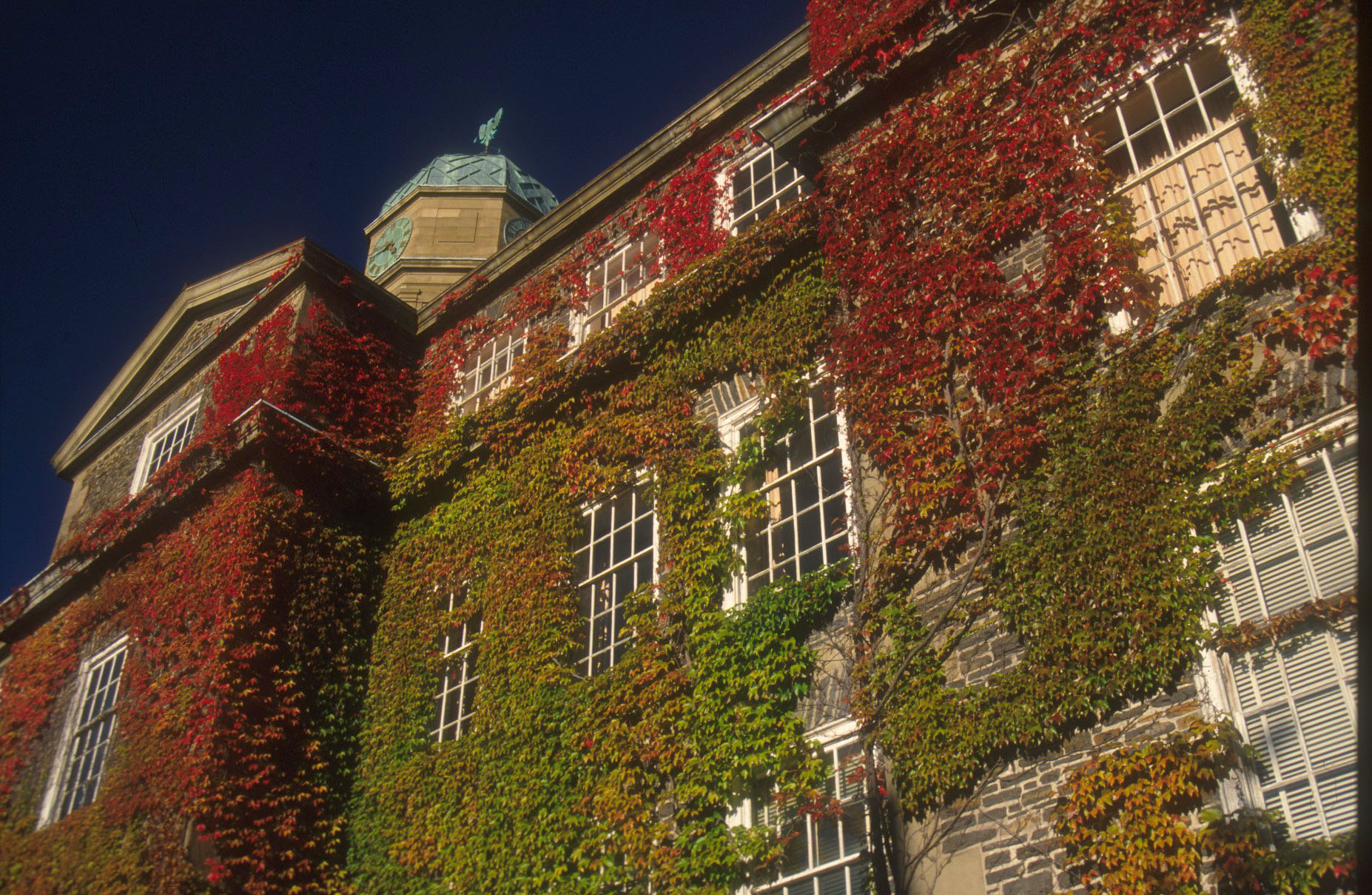 Arts and Administration Building, now the Henry Hicks Building, at Dalhousie University in Halifax, Nova Scotia, Canada, September 2002.